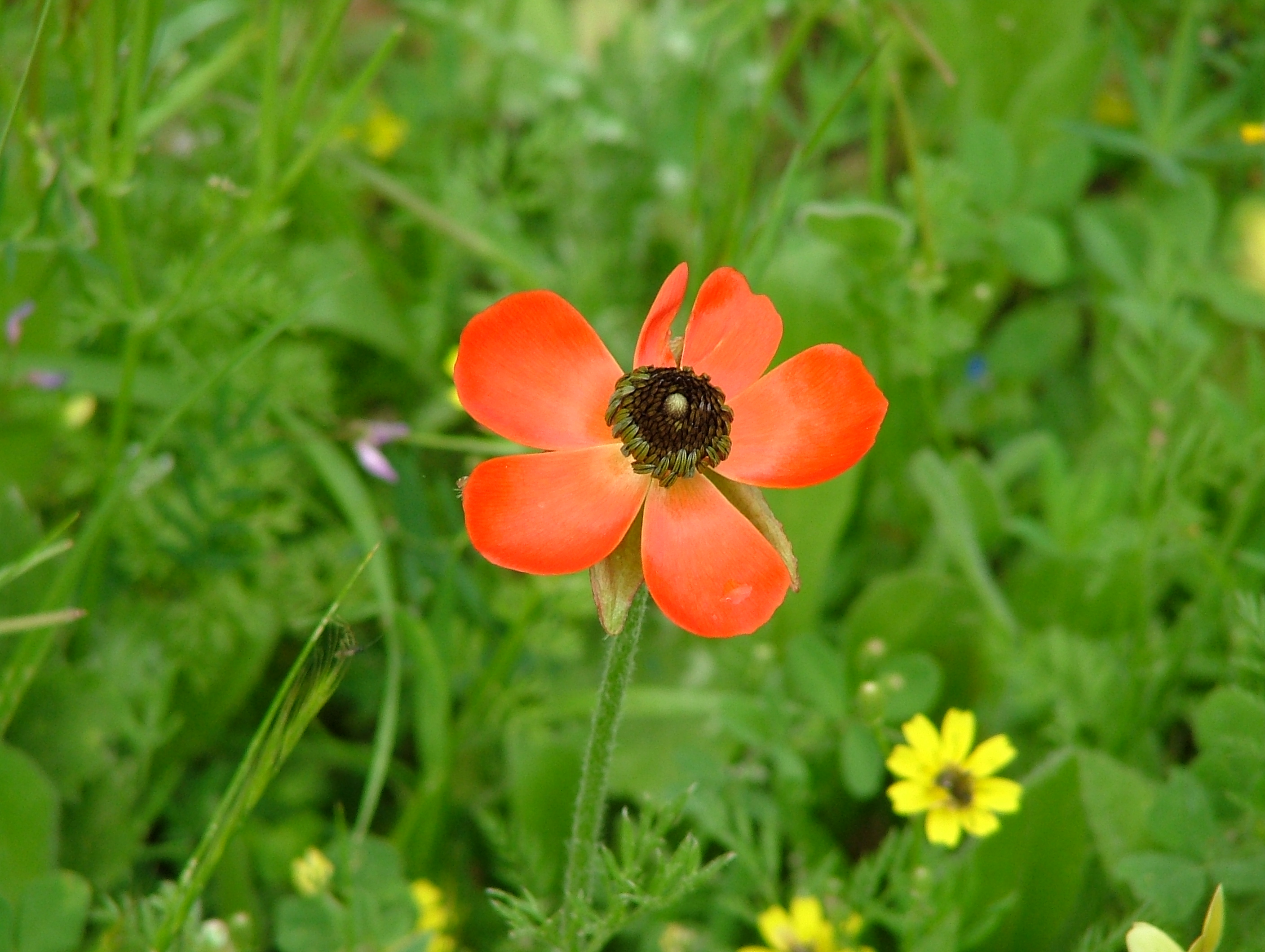 A Persian Buttercup (Ranunculus asiaticus) in the Nataf area.